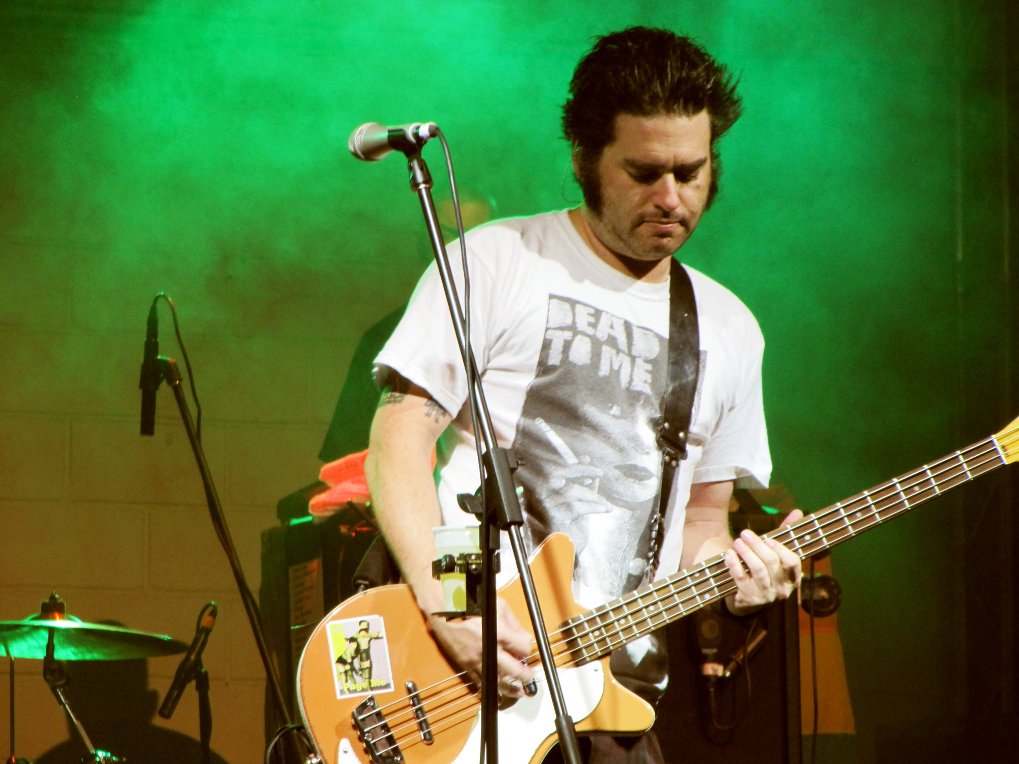 Musician Fat Mike performing in 2010.